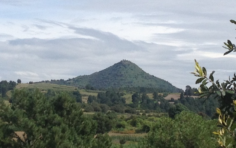 Teotón Hill from the Nealtican malpaís